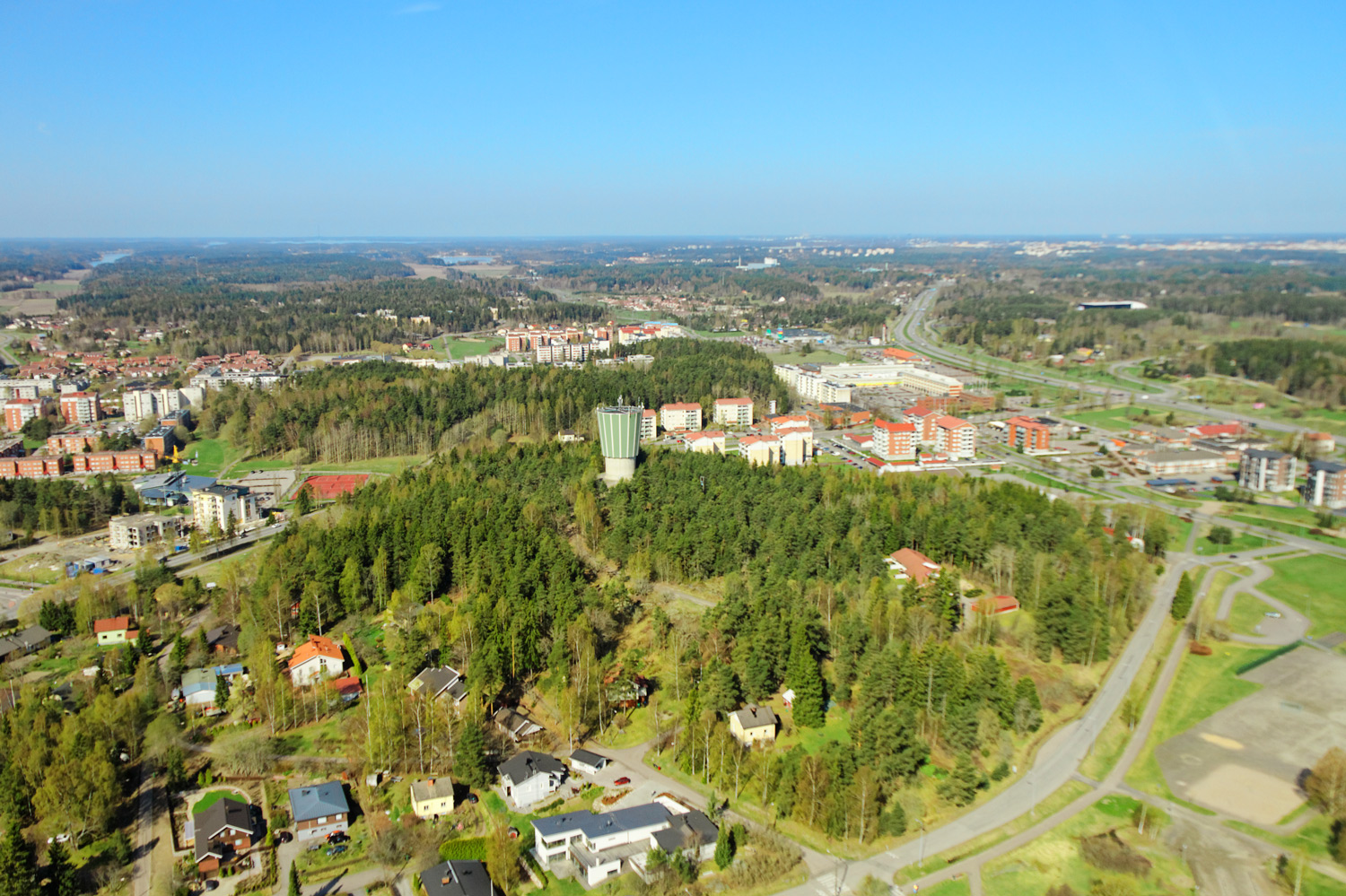 Aerial view of the center of Kaarina, Finland.